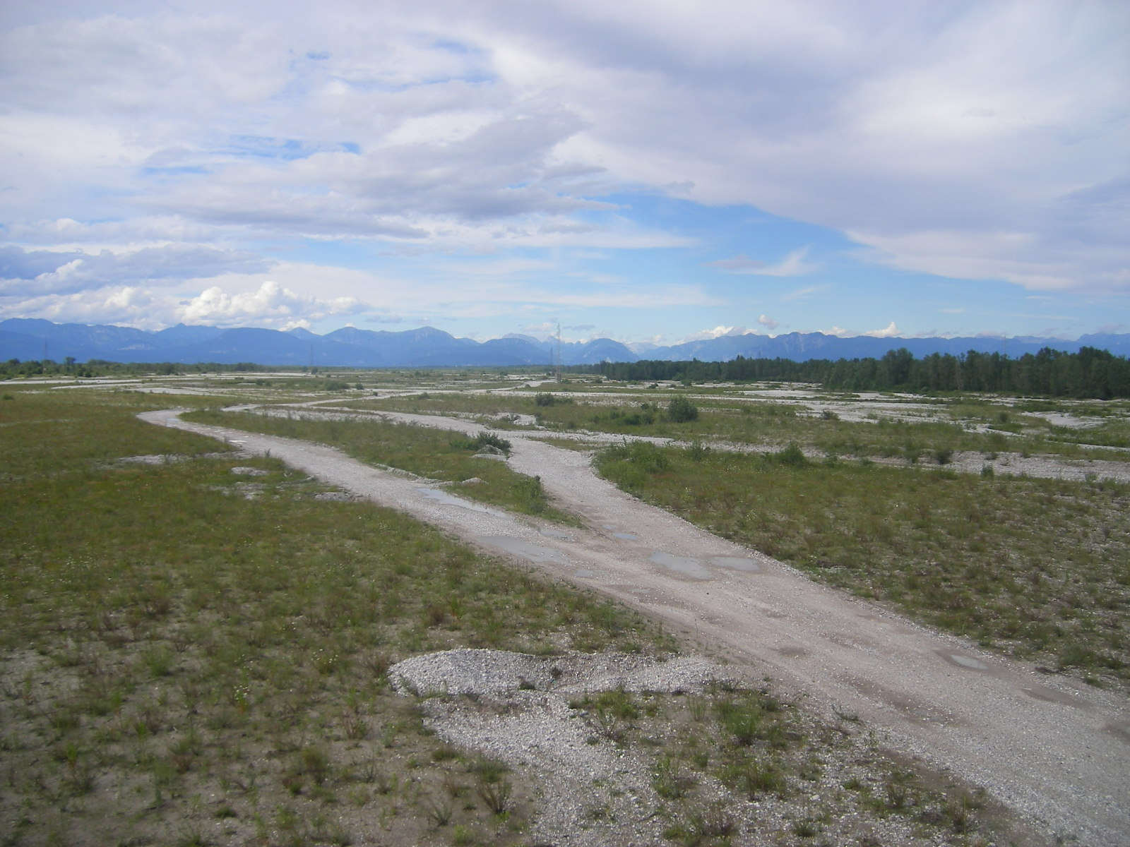 The Tagliamento River between Codroipo and Pordenone